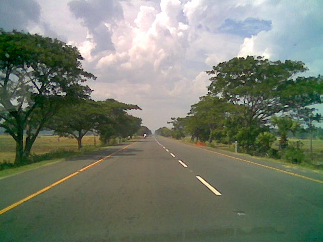 East Coast Road in Chennai